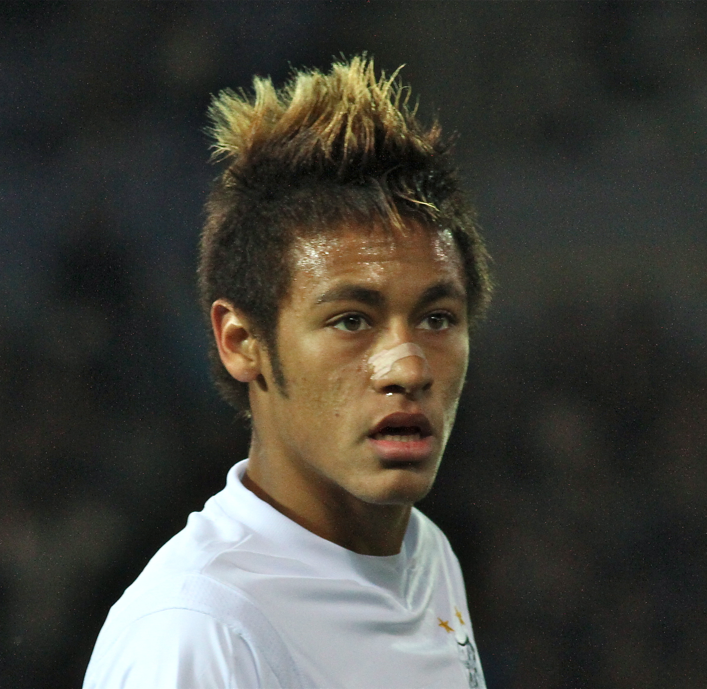 Close view of Neymar during the final match of the FIFA World Cup against FC Barcelona.